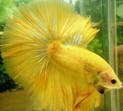 Yellow halfmoon male by IBC world champion betta breeder Echosaisis Clark.